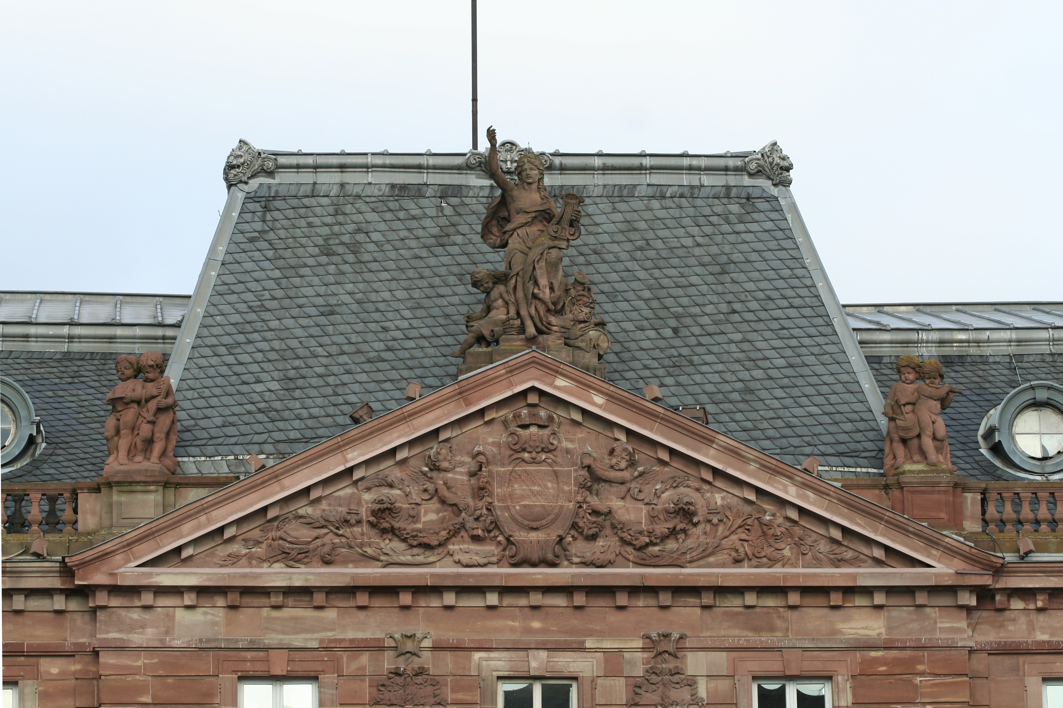 Pavilion roof of Aubette (place Kléber, Strasbourg).Materials: Lower slope: slate schuppen, Upper slope: Zinc cleats, Cord: lead, lion heads on the corners and middle. Masonry, sculpture: pink sandstone .